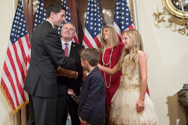 Speaker Ryan and Rep. James Comer (R-KY)